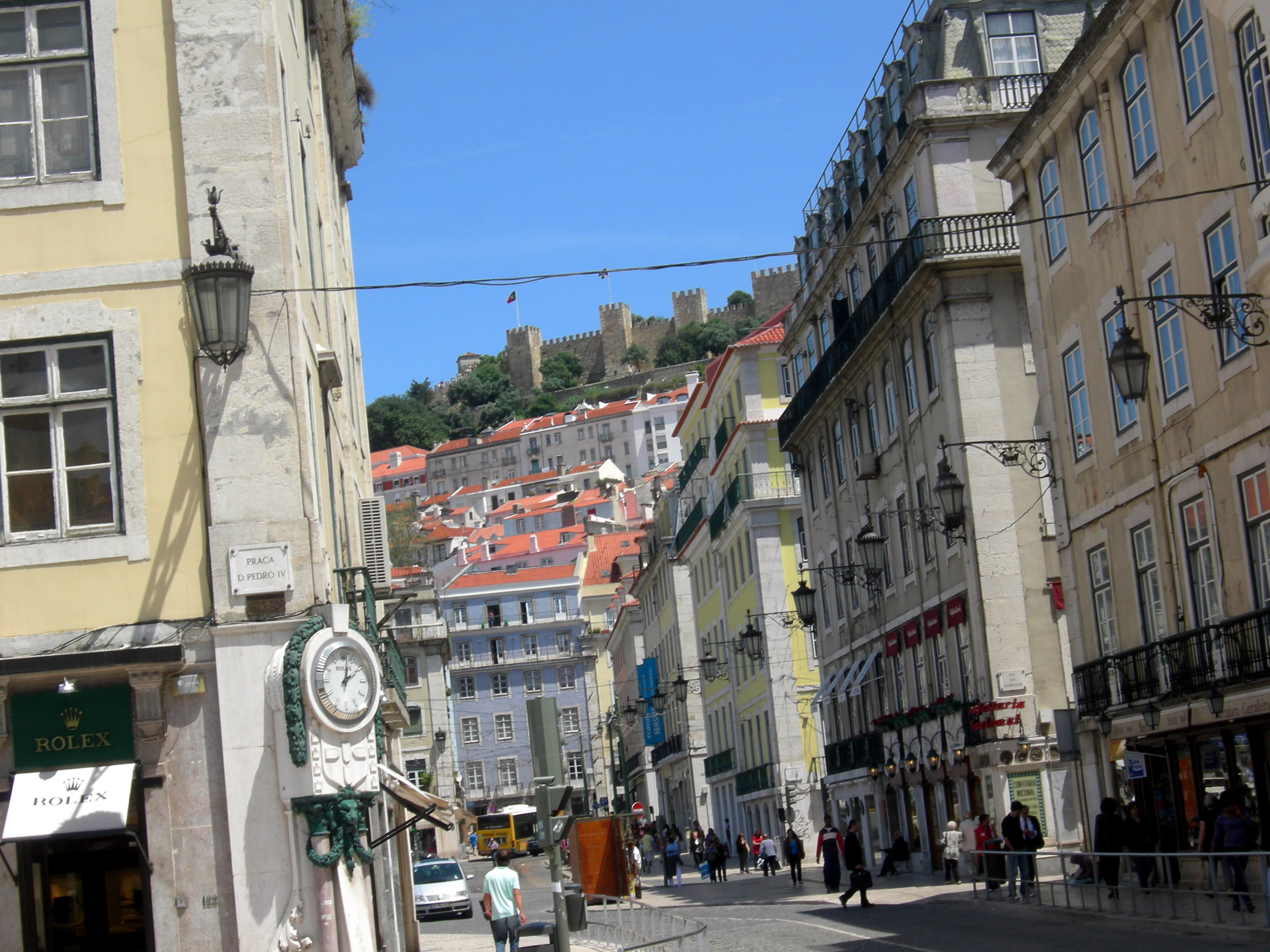 Lisbon